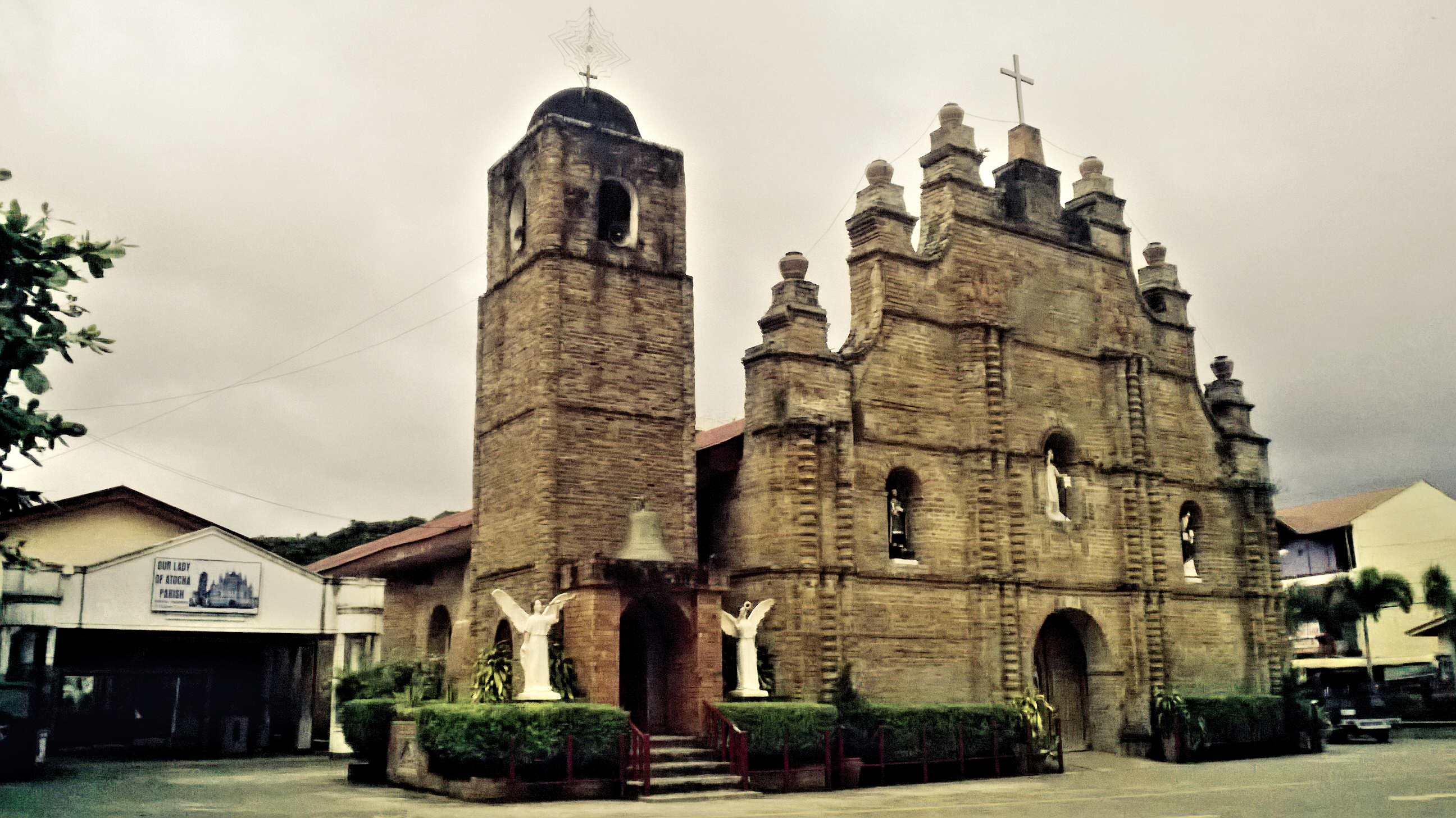 Church located at Alicia, Isabela